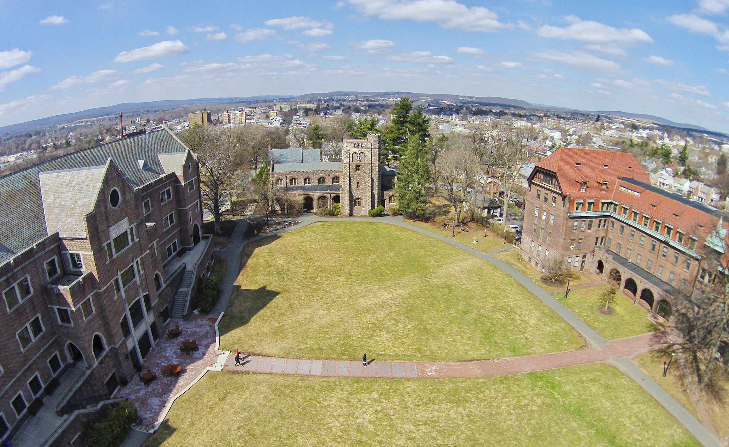 The Hill School Quad, Pottstown, Pennsylvania, USA